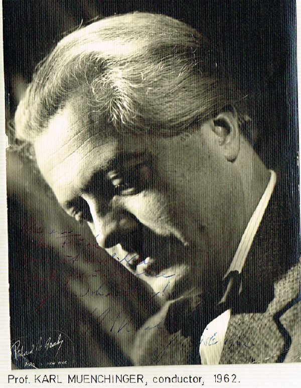 photo dedicated to Hans Adler, Southern Africa tour organiser